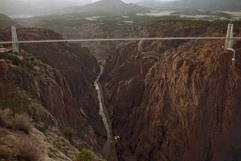 Royal Gorge Bridge, Colorado, USA, crosses the Arkansas River about 5 miles west of Cañon City. The bridge deck is 955 ft (291 m) above the river according to an independent measurement made in 2005. The official measurement had long been 1,053 ft (321 m), which probably included the towers. A more recent official height is 956 ft (291 m), nearly the same as the independent measurement. The Royal Gorge Bridge was the highest bridge in the world from the time it was built in 1929 until 2001.